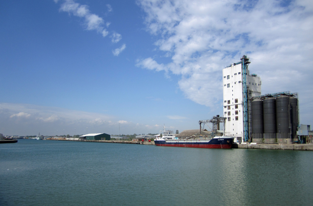 Lowestoft harbour, showing dockside silos and grain storage